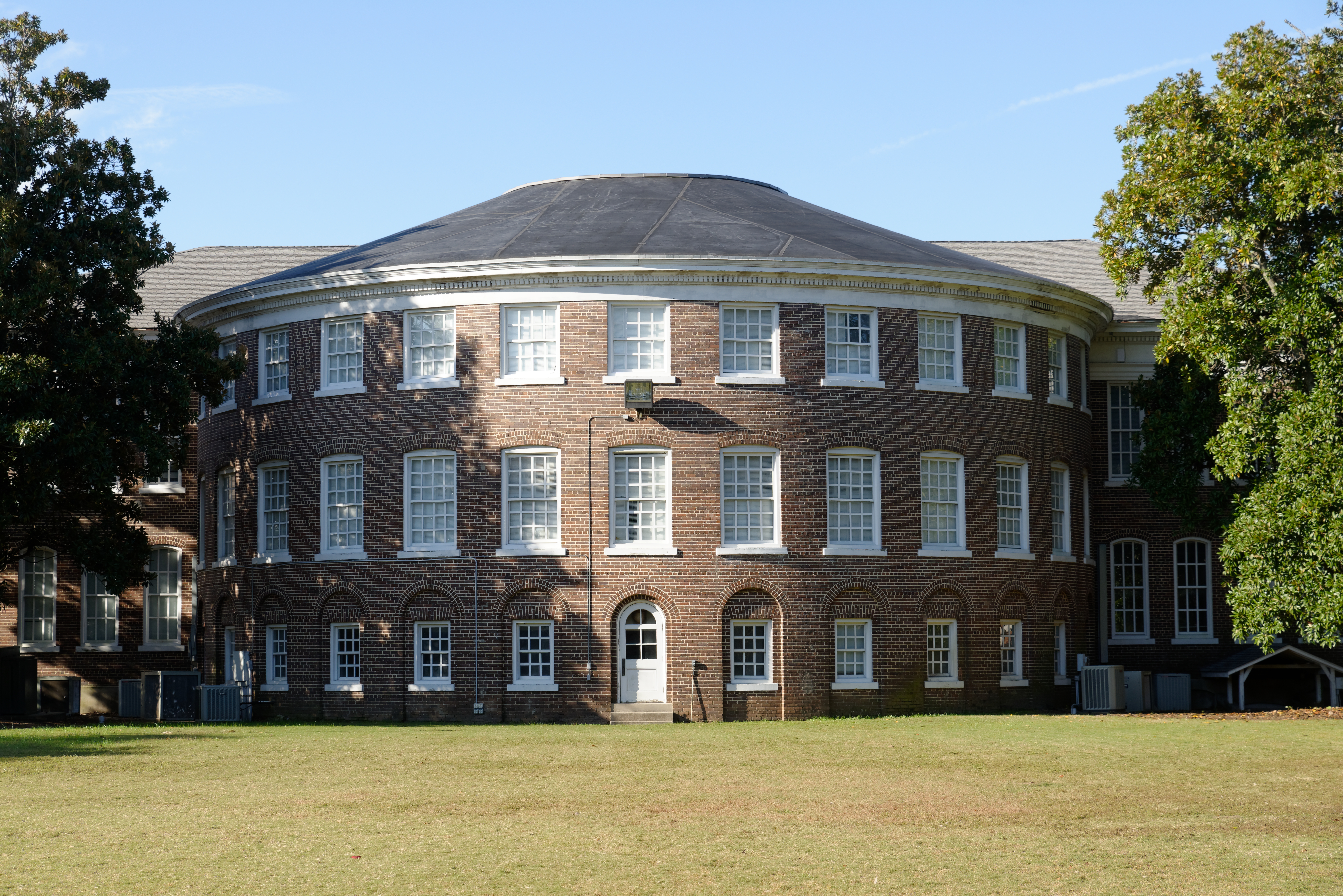 Rear of Davidson Hall at Coker College, Hartsville, South Carolina, U.S.